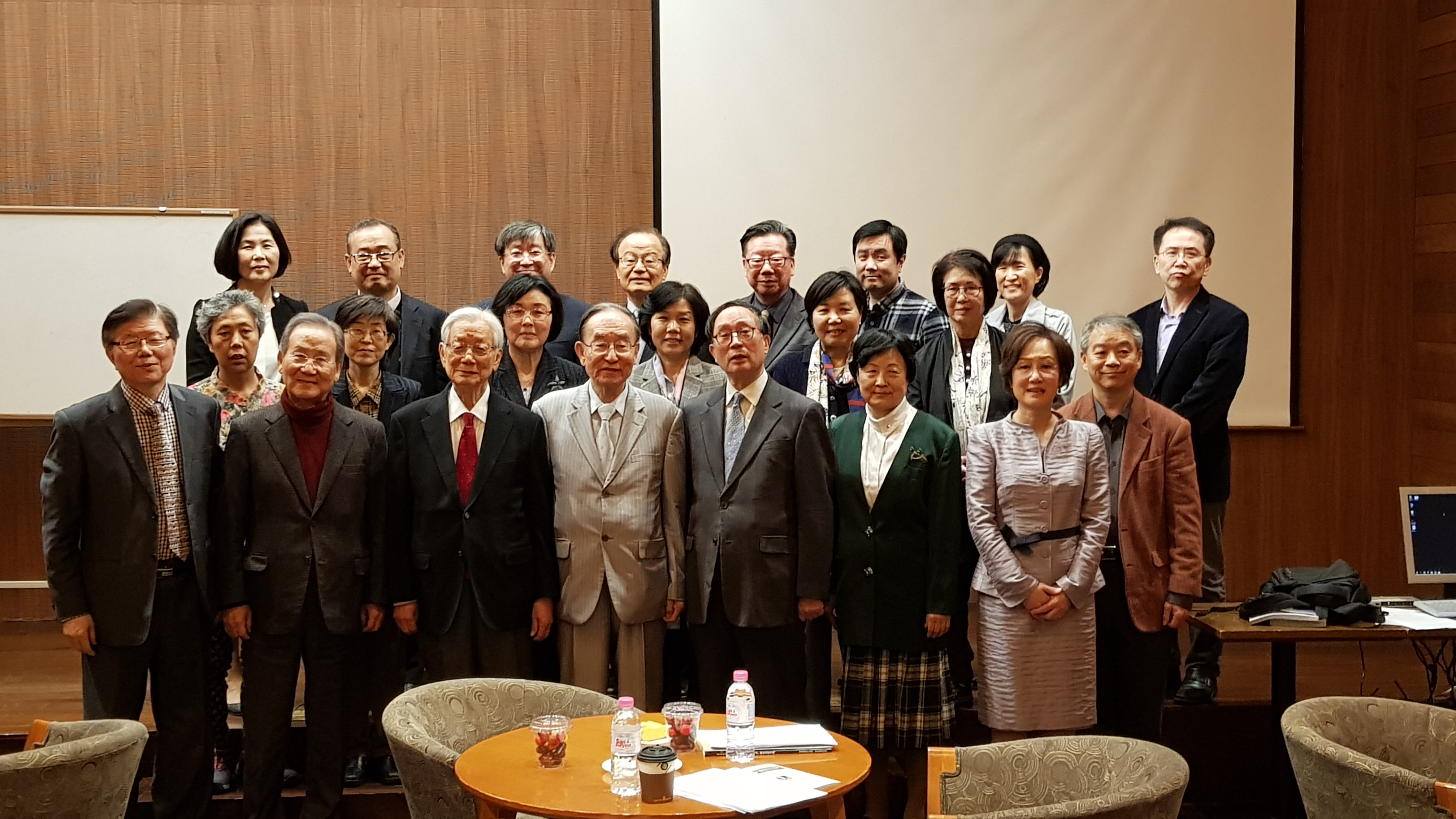 Peter Beyerhaus Academy 25, October, 2019